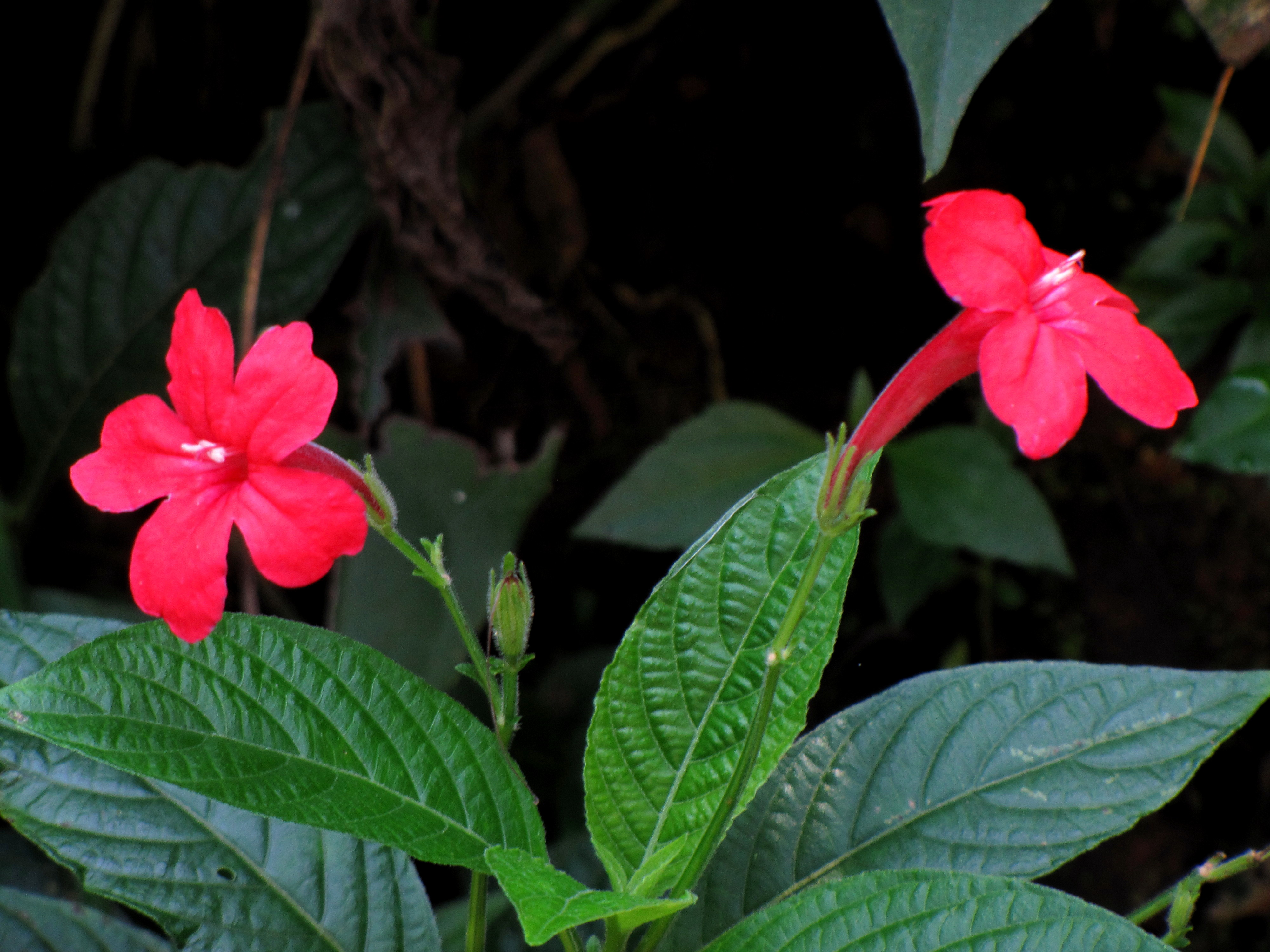 Ruellia elegans flower from Koovery, Kannur